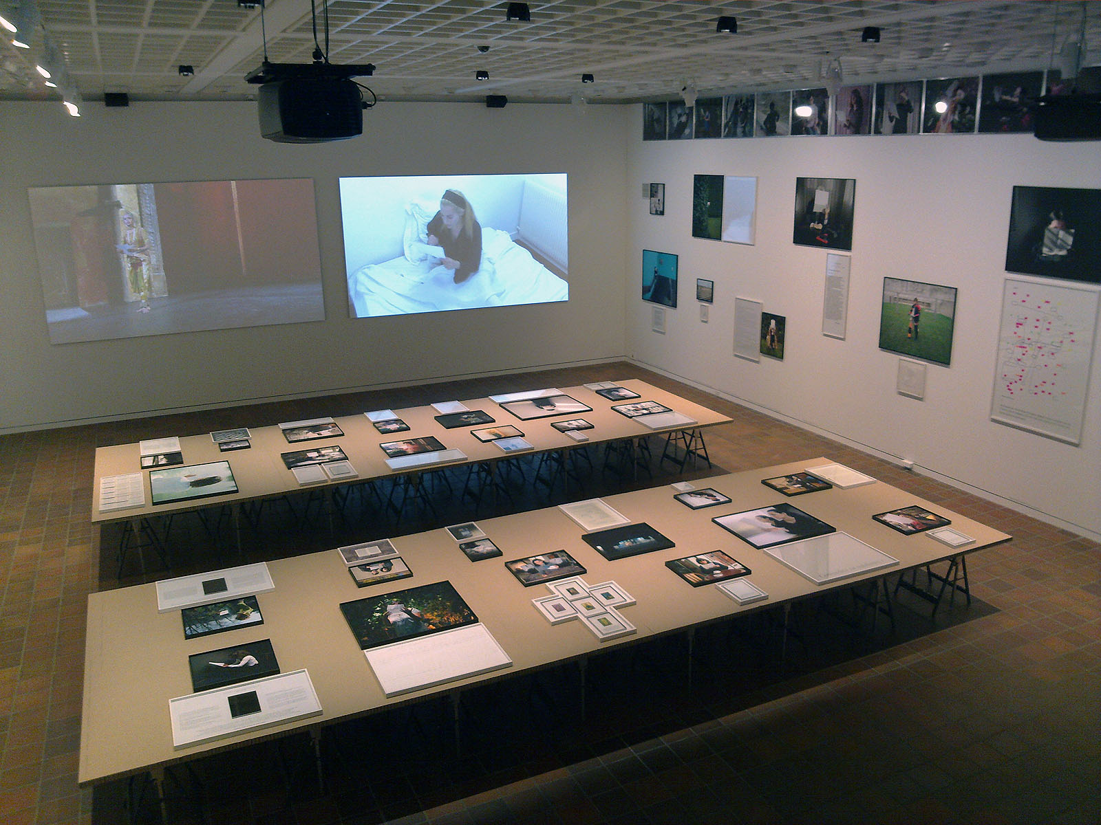 Snapshots from Louisiana. Sophie Calle.